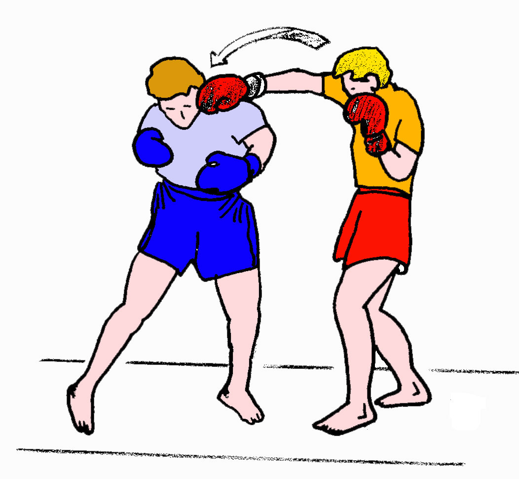 Swing